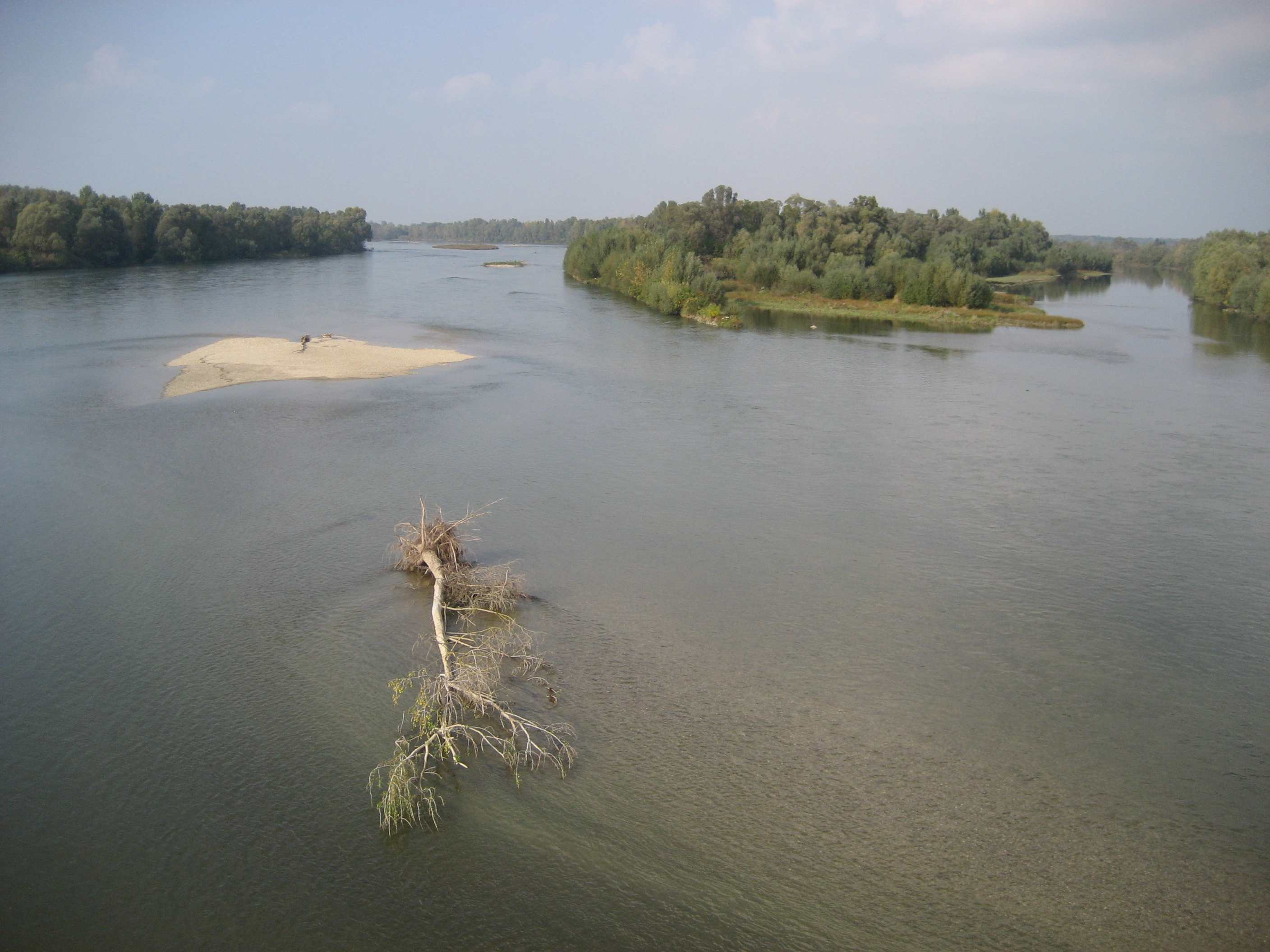 River Drava near Molve in Croatia